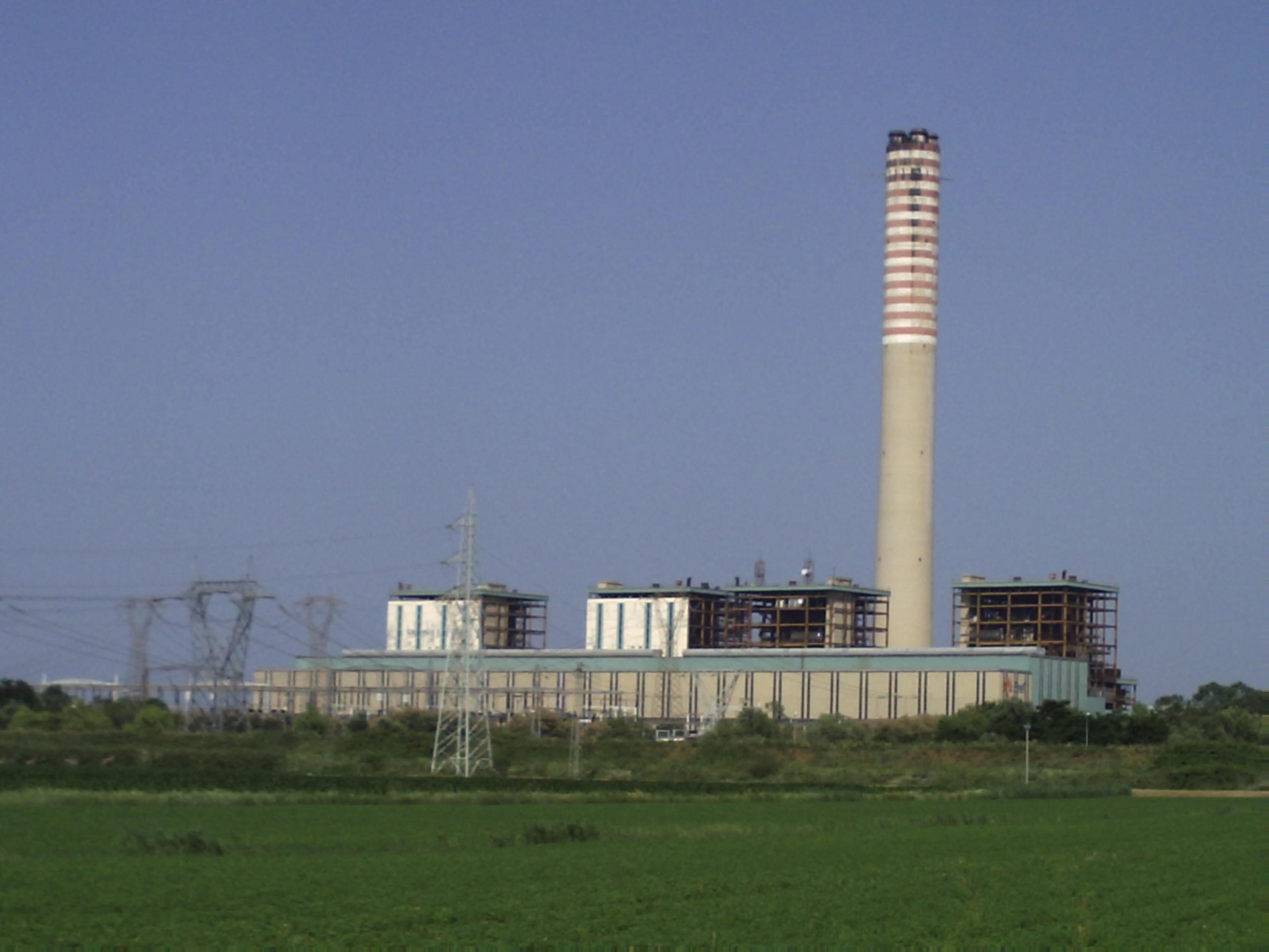 Polesine Camerini thermal power station, Italy